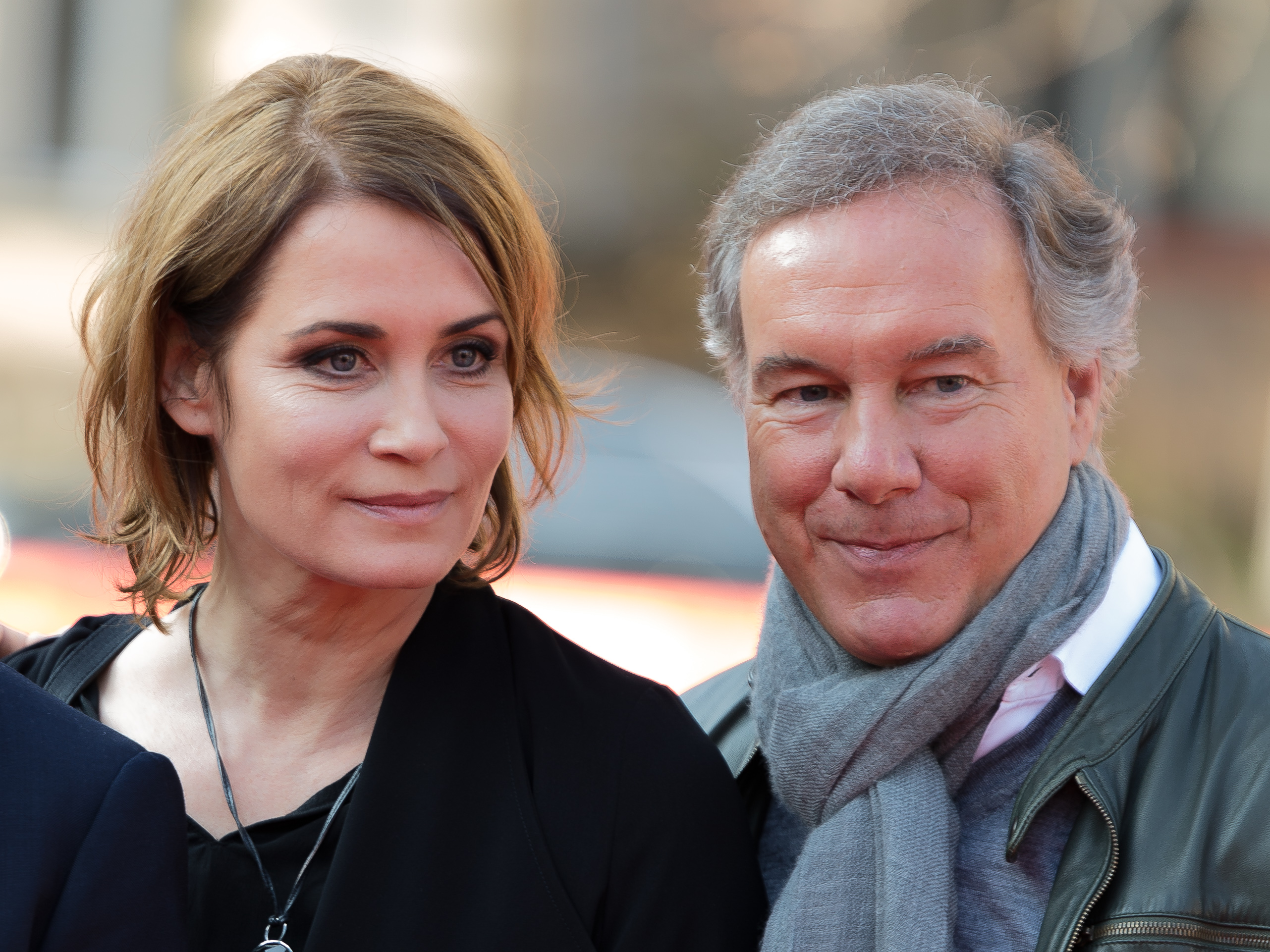 Anja Kling and UFA Co-CEO Nico Hofmann at the screening of The Same Sky at the Berlinale 2017.